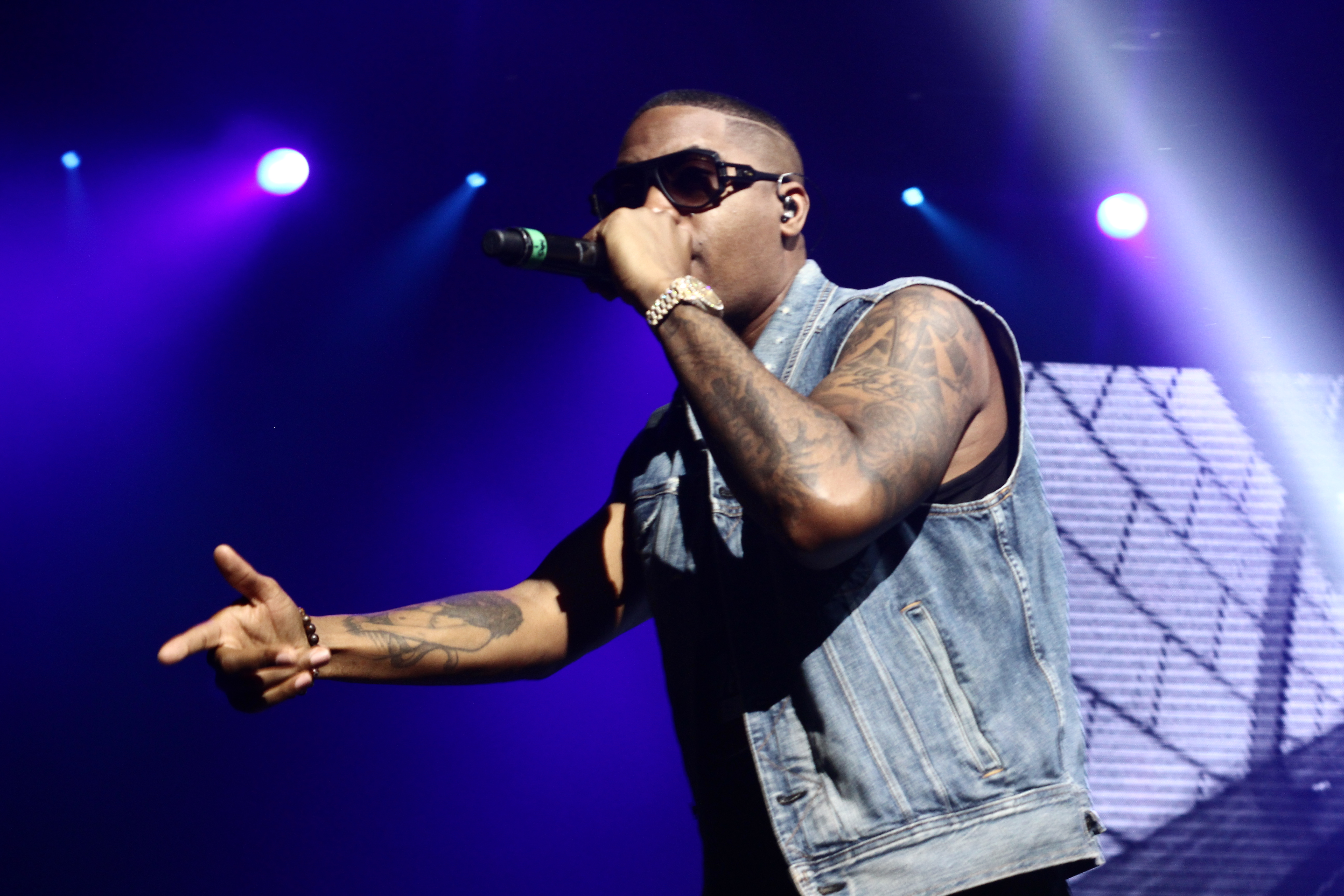 Concert of Nas and M.I.A., Zénith de Paris, 6 July 2014. Paris Hip Hop 2014.